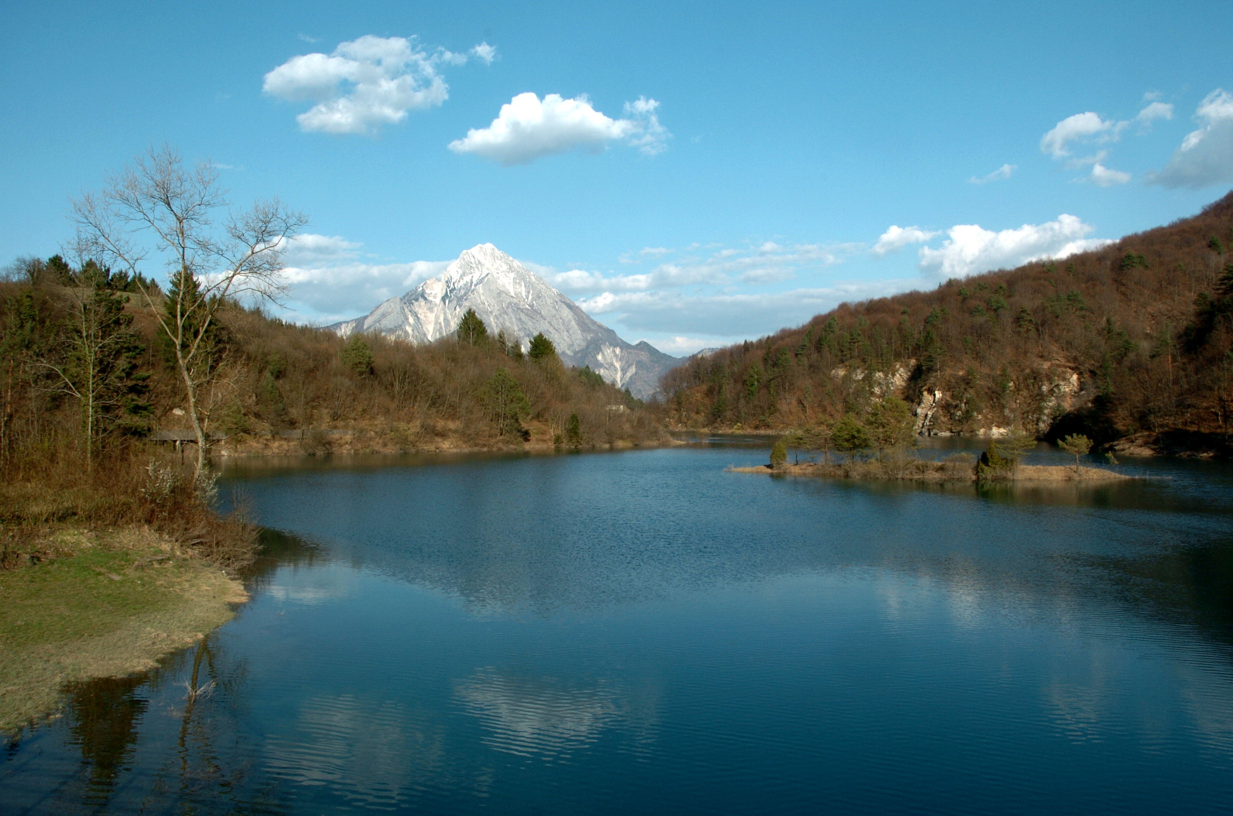 Lake of Verzegnis near the village Chiàicis in the community Verzegnis, in the background the Mountain Amariana, situated in the state Friuli-Venezia Giulia, Italy